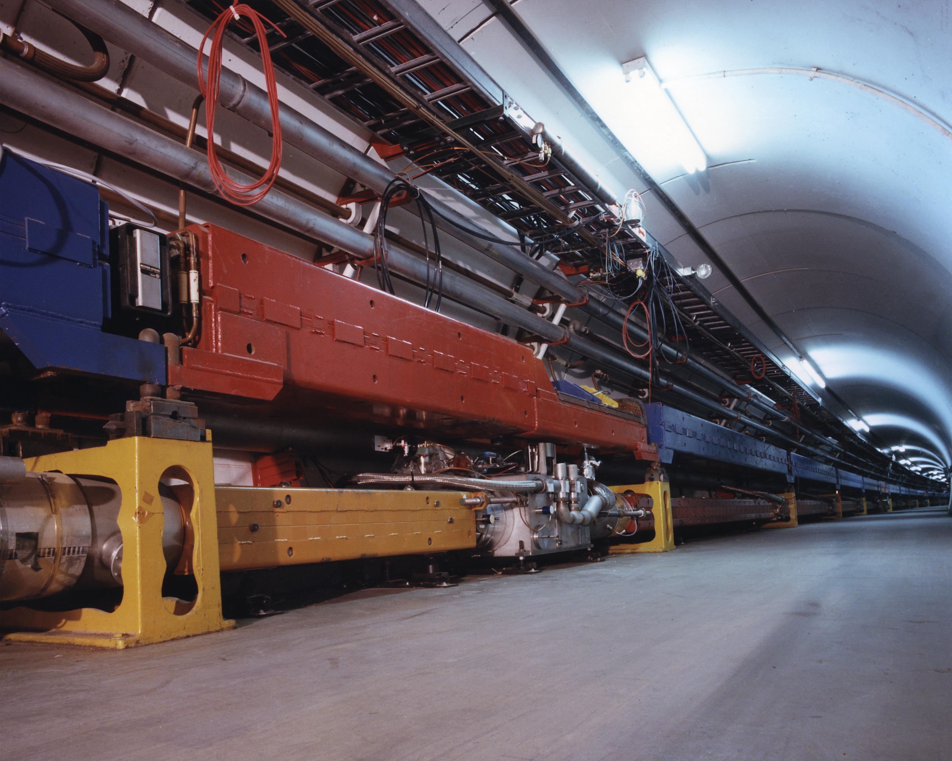 VIEW OF FERMI LAB'S MAIN ACCELERATOR TUNNEL, SHOWING ORIGINAL RING (ABOVE) AND TEVATRON'S SUPERCONDUCTING MAGNETS (BELOW). THE PRINCIPAL INSTRUMENT AT FERMI LAB--THE TEVATRON IS A SYSTEM OF FIVE ACCELERATORS WORKING IN SEQUENCE TO ACCELERATE PROTONS TO ONE TRILLION ELECTRON VOLTS (TEV) FOR HIGH ENERGY PHYSICS RESEARCH. THE FIFTH ACCELERATOR (LOWER BOXES IN PHOTOGRAPH) IS A RING OF 1,000 SUPERCONDUCTING MAGNETS, WITH COILS OF NIOBIUM AND TITANIUM. WHEN COOLED TO TEMPERATURES CLOSE TO ABSOLUTE ZERO, SUCH MATERIALS LOSE THEIR RESISTANCE TO ELECTRICITY AND SHARPLY REDUCE POWER DEMANDS. BECAUSE OF ITS ENERGY-MISERLY FEATURES, THIS ACCELERATOR HAS BEEN DUBBED THE "ENERGY DOUBLER /SAVER." IN THE FIRST PHASE OF THE TEVATRON PROGRAM, THE ACCELERATED PROTONS WERE USED IN COLLIDING-BEAM STUDIES. IN THE SECOND PHASE (TEVATRON II), PARTICLES EXTRACTED FROM THE ACCELERATORS WILL BE USED FOR FIXED-TARGET EXPERIMENTS. THE TEVATRON PROGRAM WILL ENABLE SCIENTISTS TO PROBE MORE DEEPLY INTO THE SUBATOMIC WORLD OF PARTICLE PHYSICS. For more information or additional images, please contact 202-586-5251.